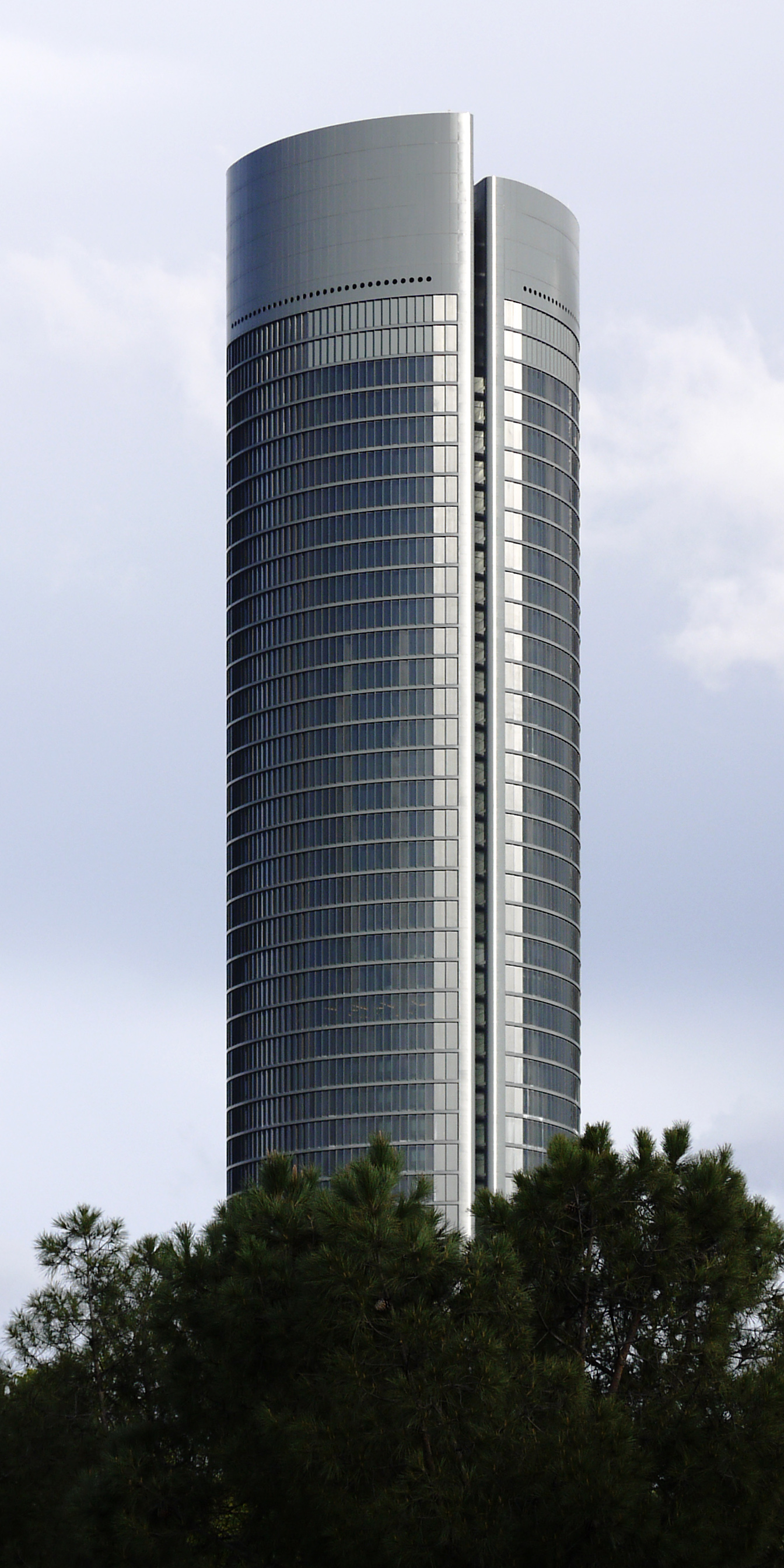 Madrid Cuatro Torres Business Area, Torre Sacyr Vallehermosa. Madrid, Spain.